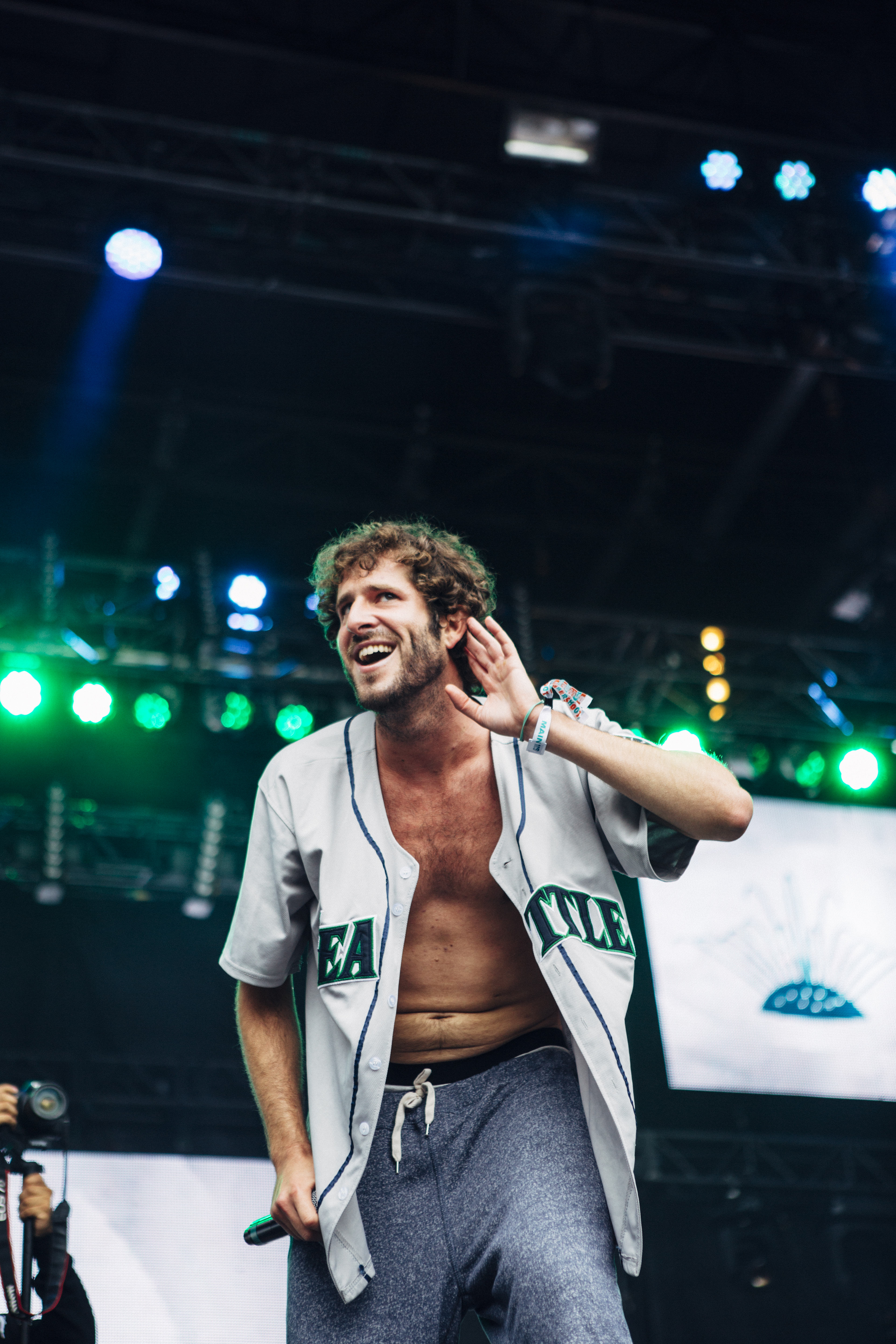 Lil Dicky performing at Bumbershoot 2015